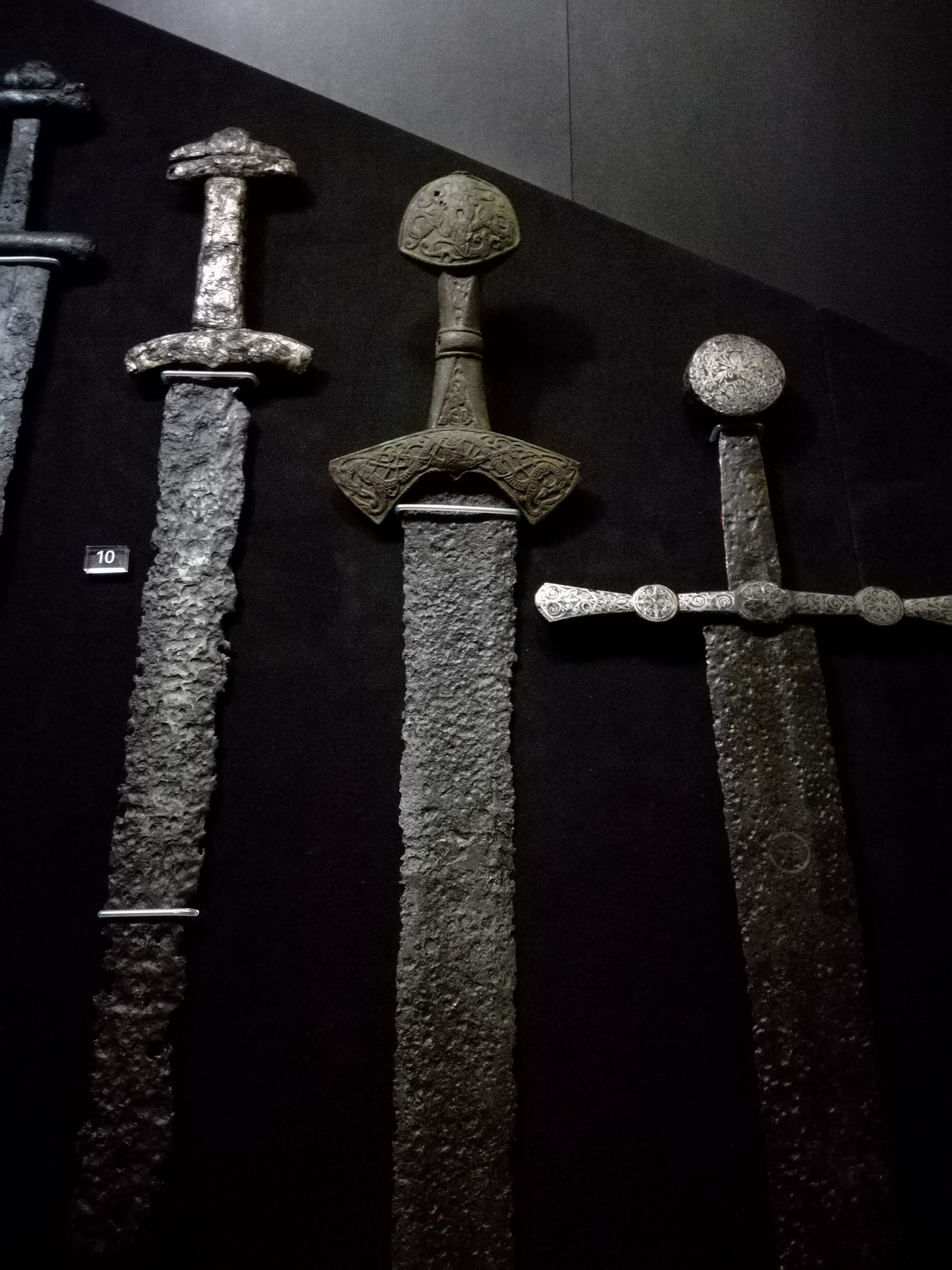 Suontaka Sword in Finnish National Museum of Finland 18.11.2017